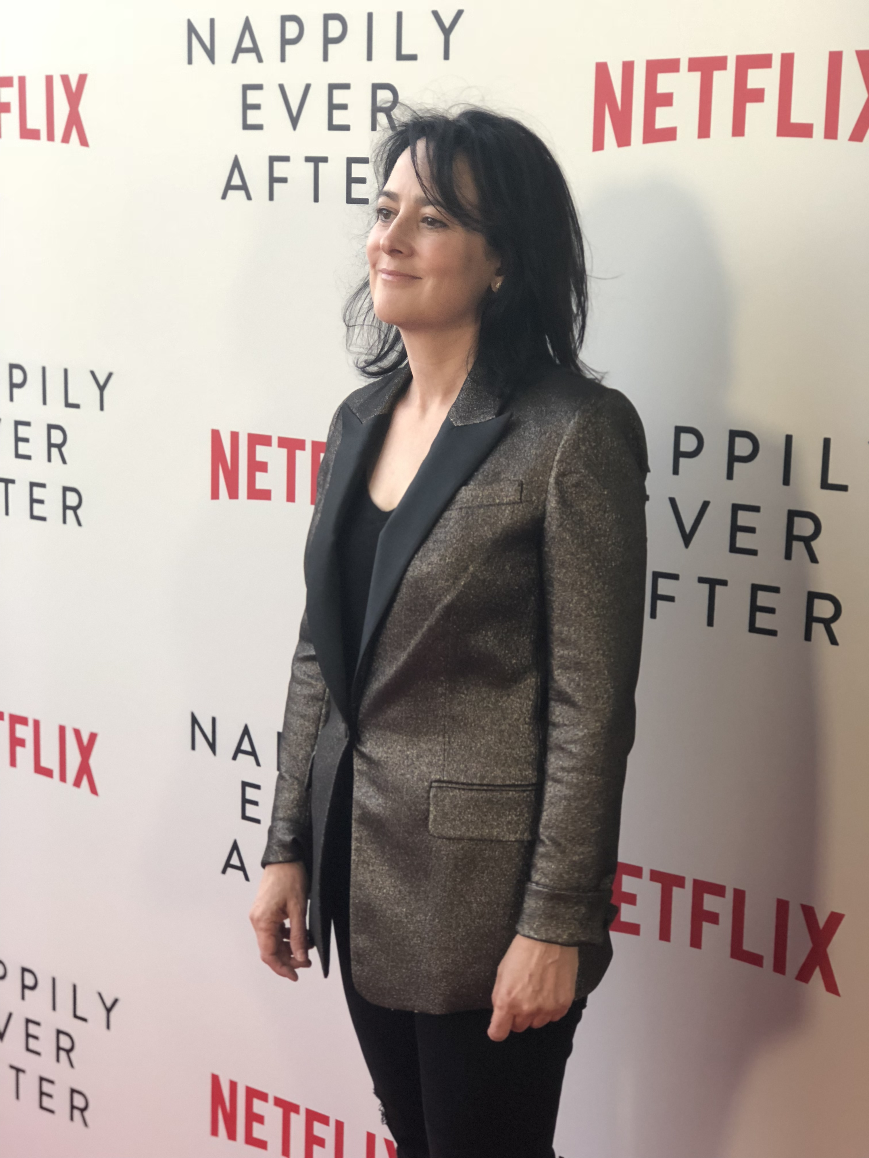 Composer Lesley Barber attends the Nappily Ever After premiere in Los Angeles taken on the red carpet.